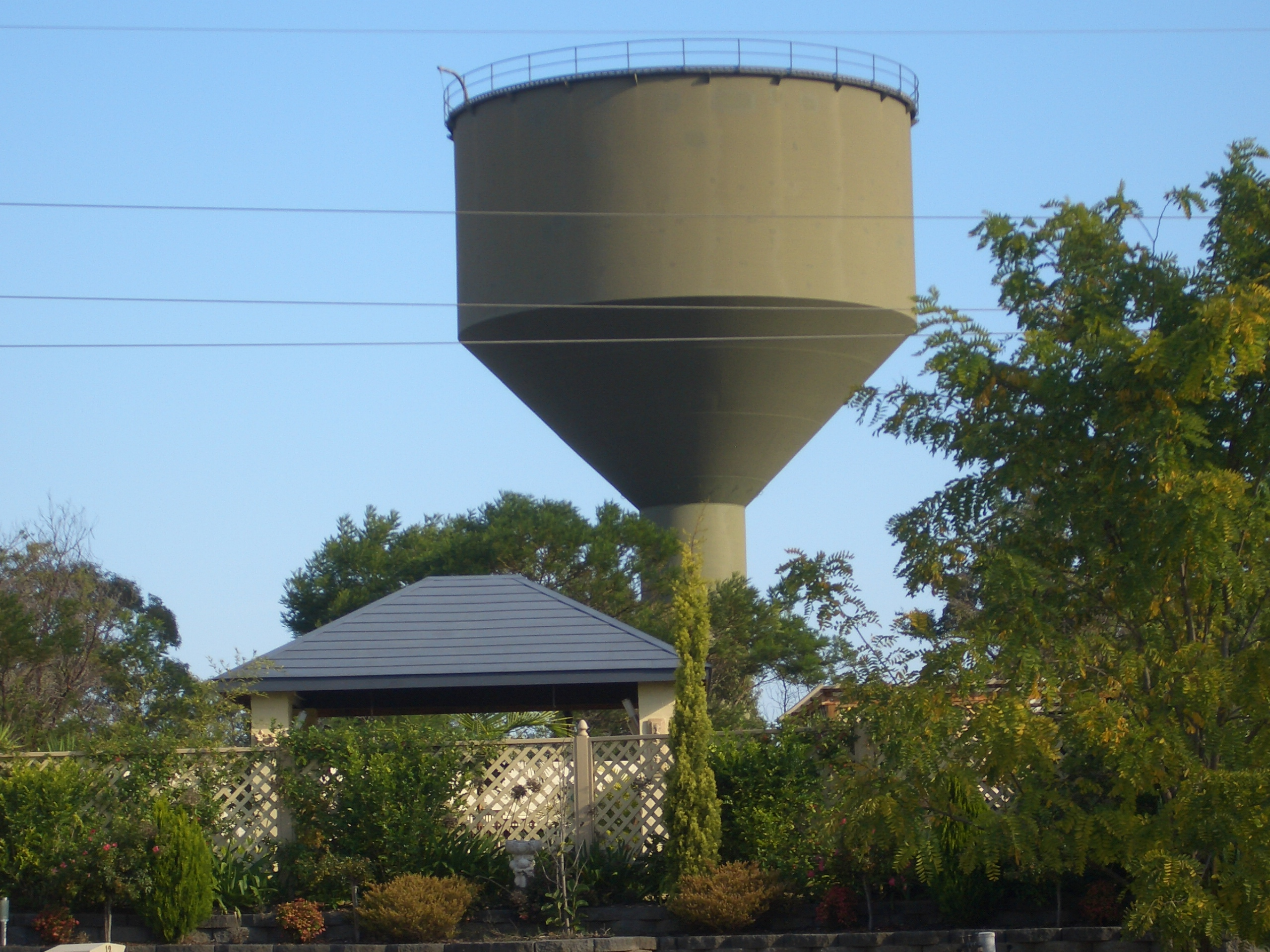 Water Tower at Voyager Point